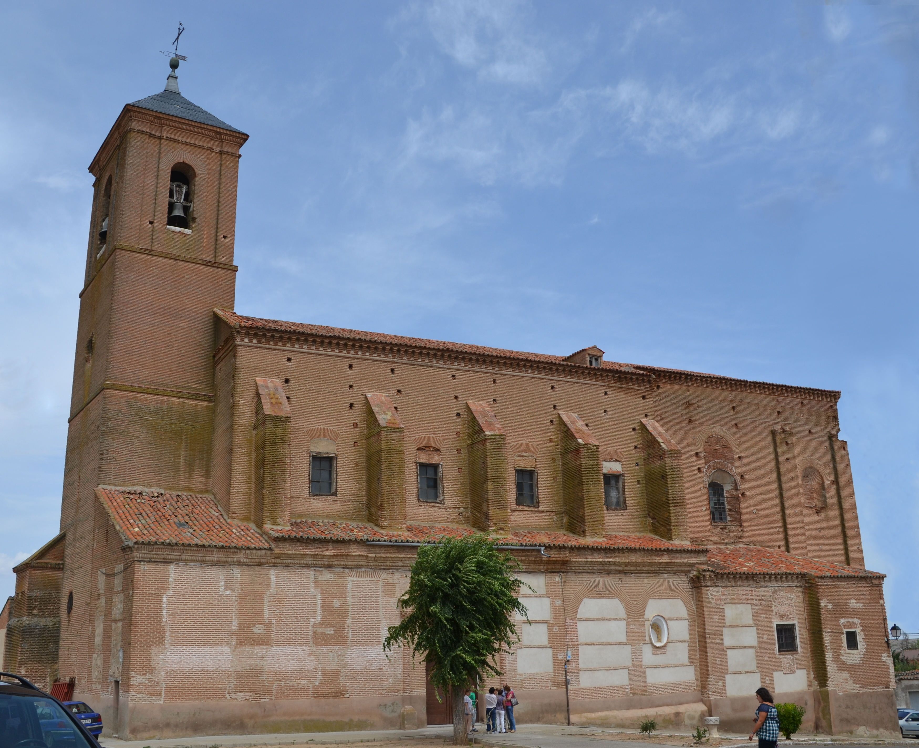 Church of St. Mary of Pozaldez, Valladolid, Spain